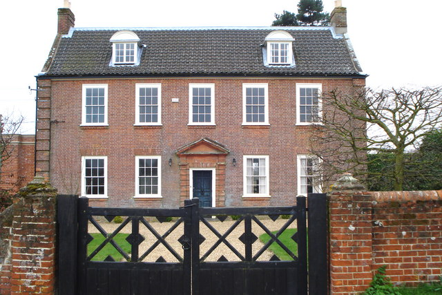 Hemblington Hall An elegant Georgian building unfortunately rather spoilt by the ruined adjacent farm buildings.